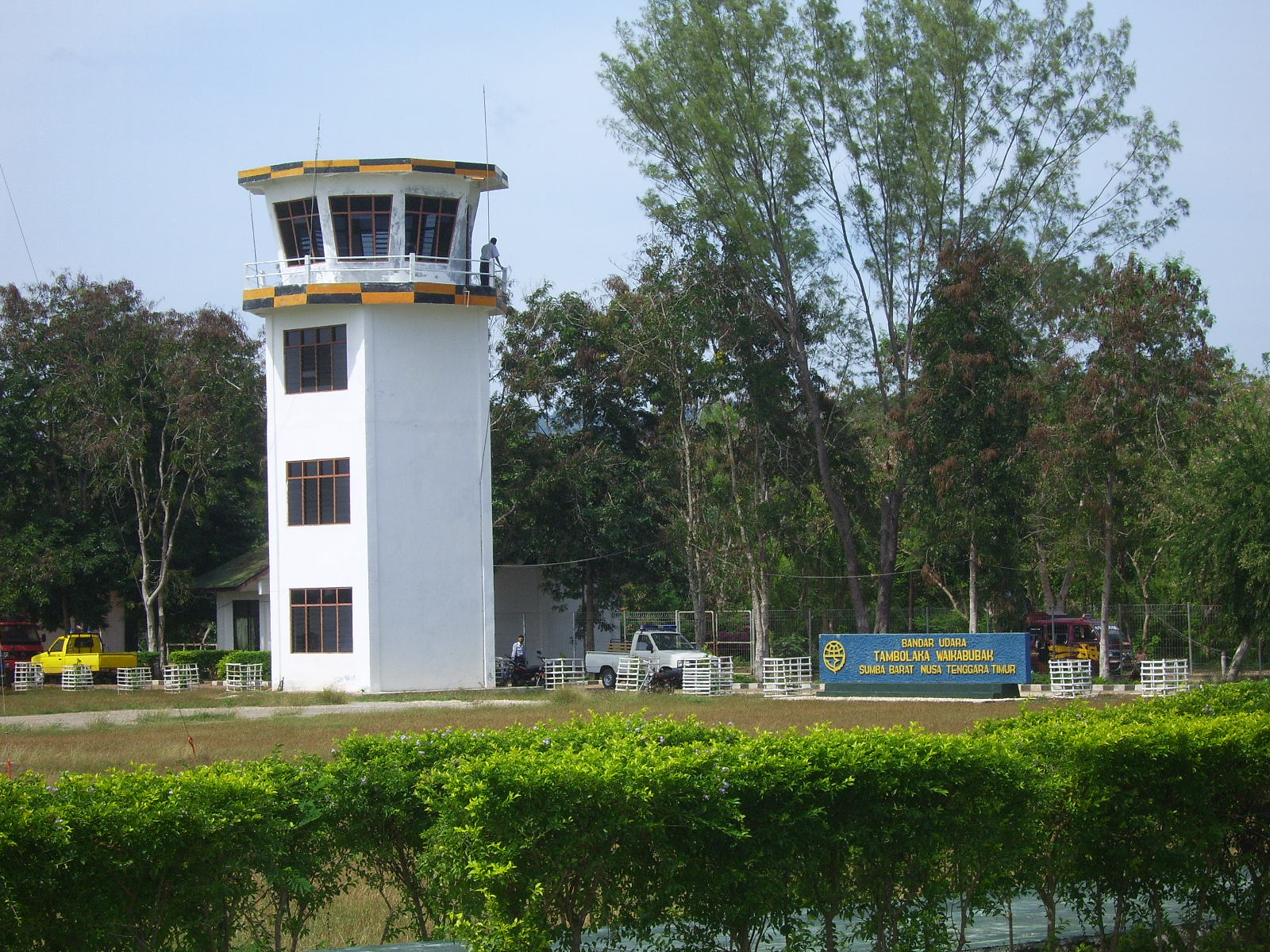 Tower and air port buildings of Tambolaka, Sumba, Indonesia